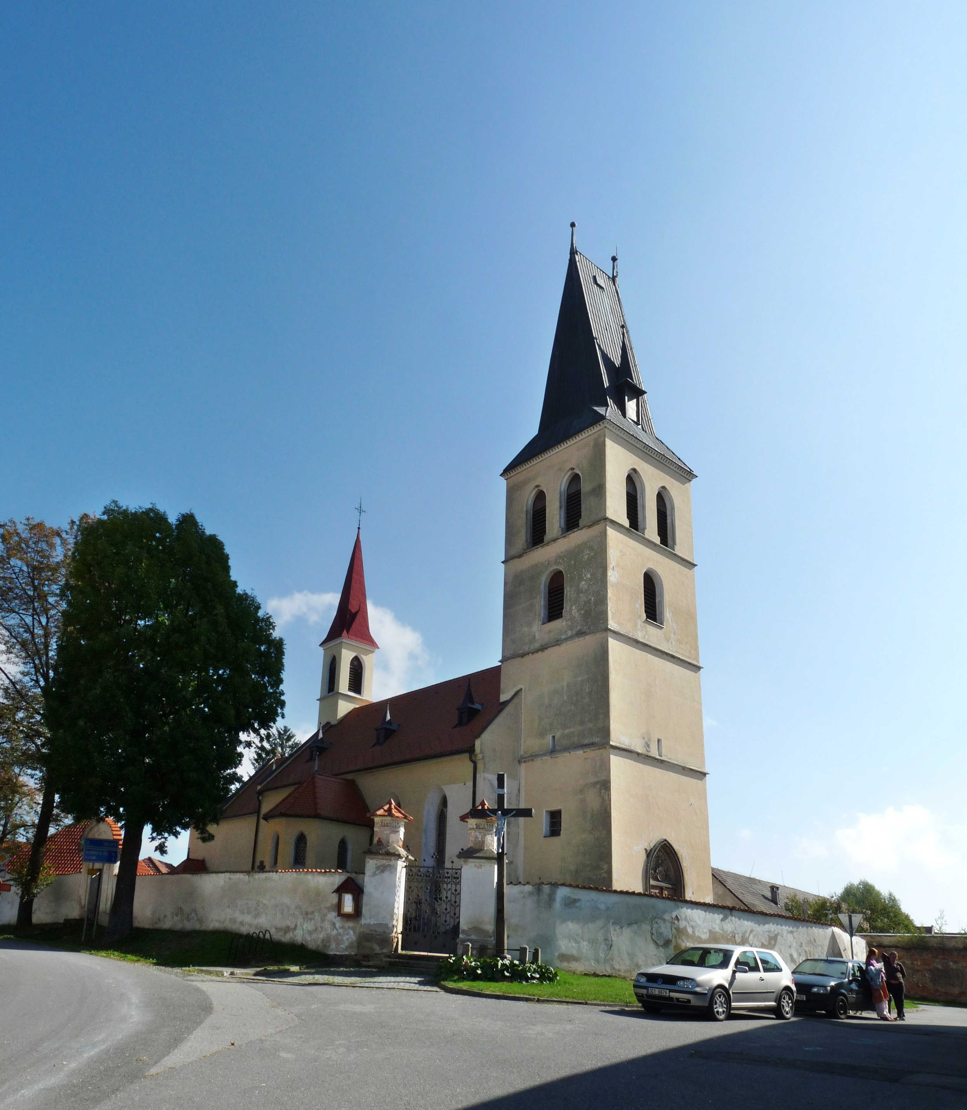 Church of Saints Peter and Paul in Nákří, village in České Budějovice District, South Bohemian Region, Czech Republic.